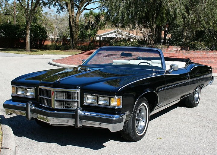 Pontiac Grand Ville Convertible from 1975.